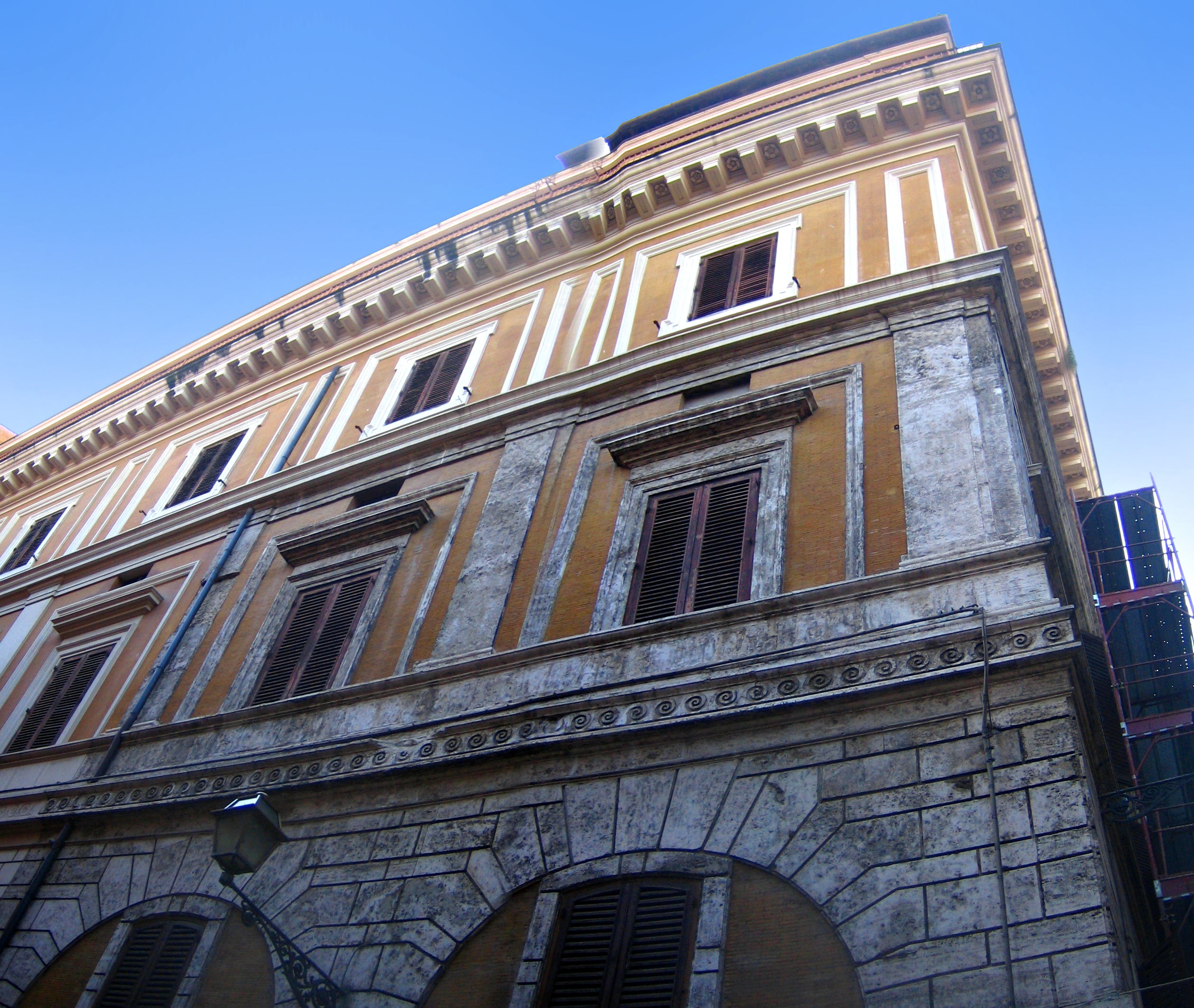 see above